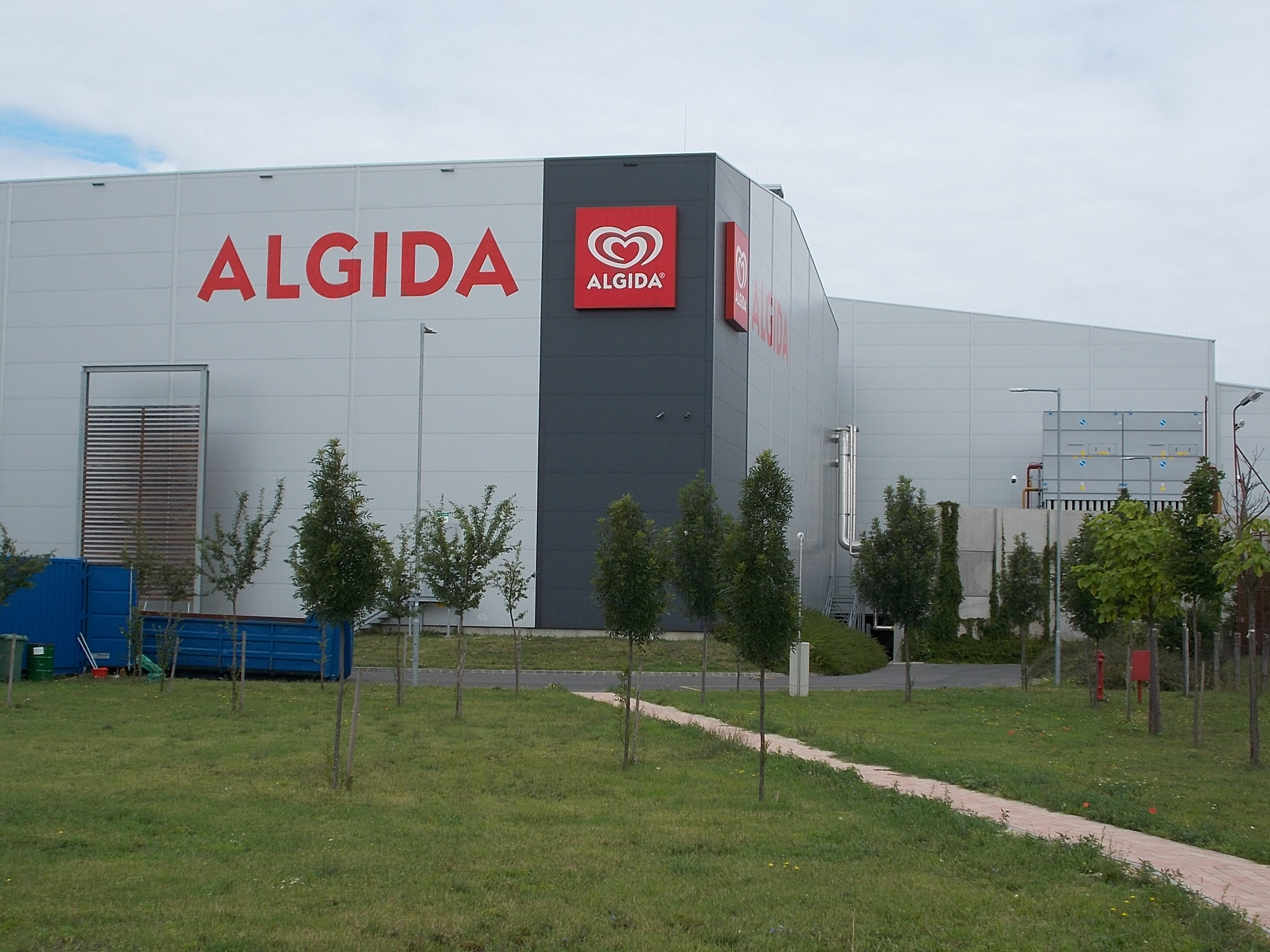 Algida Veszprém. - Iparváros, Veszprém, Veszprém County, Hungary.